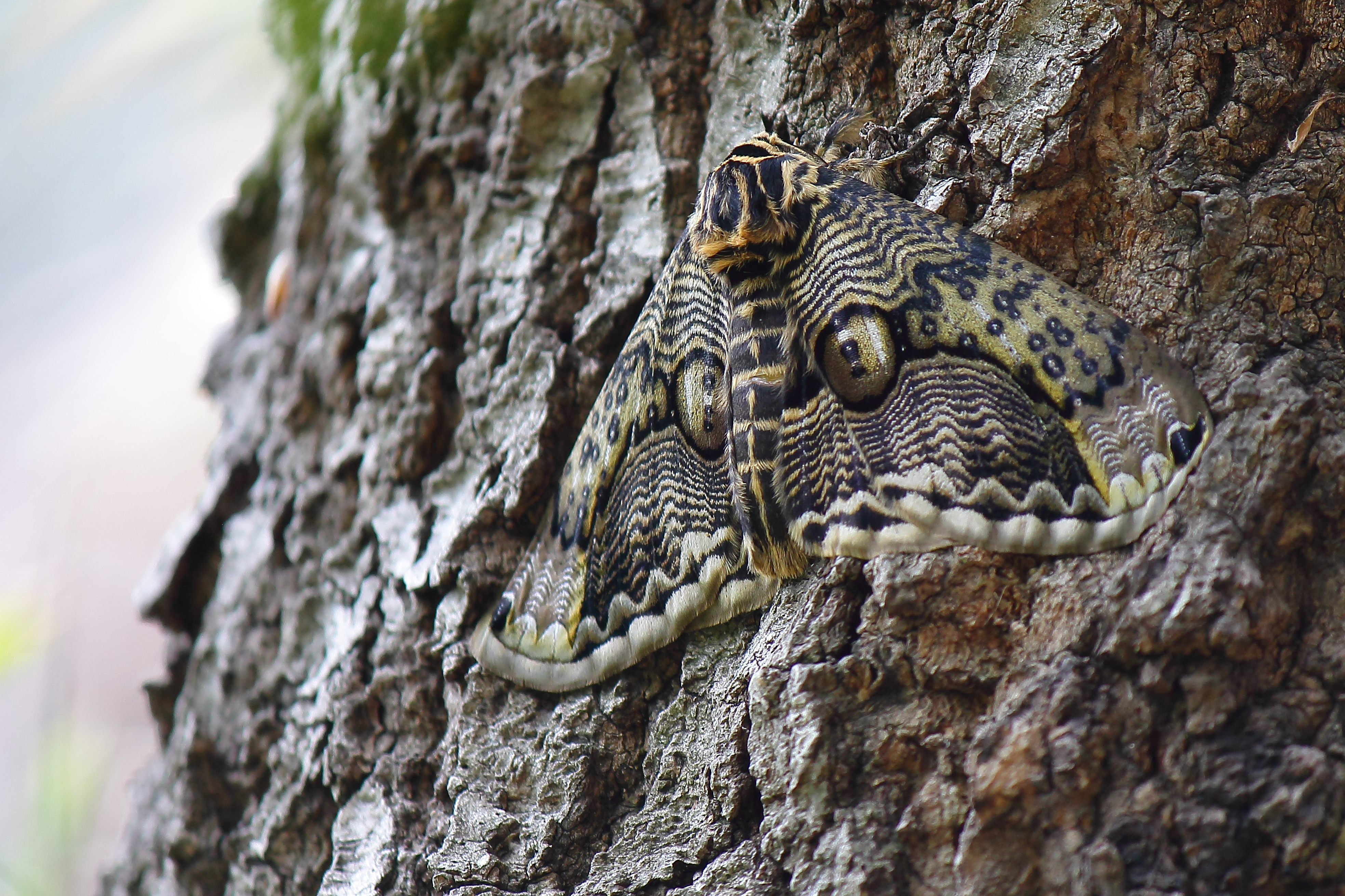 Brahmaea japonica near Kobe City, Japan